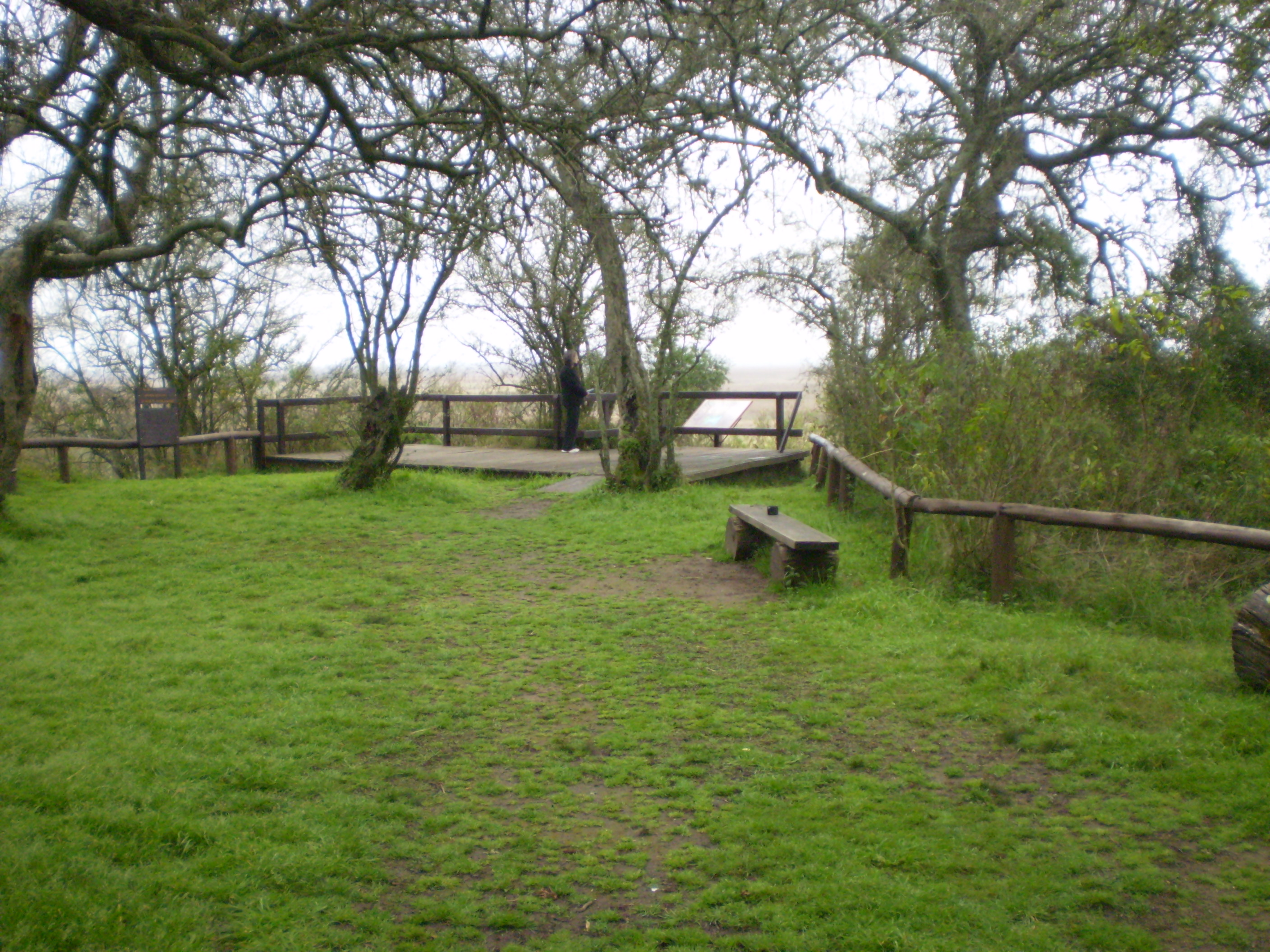 Otamendi wildlife natural reserve, Argentina.